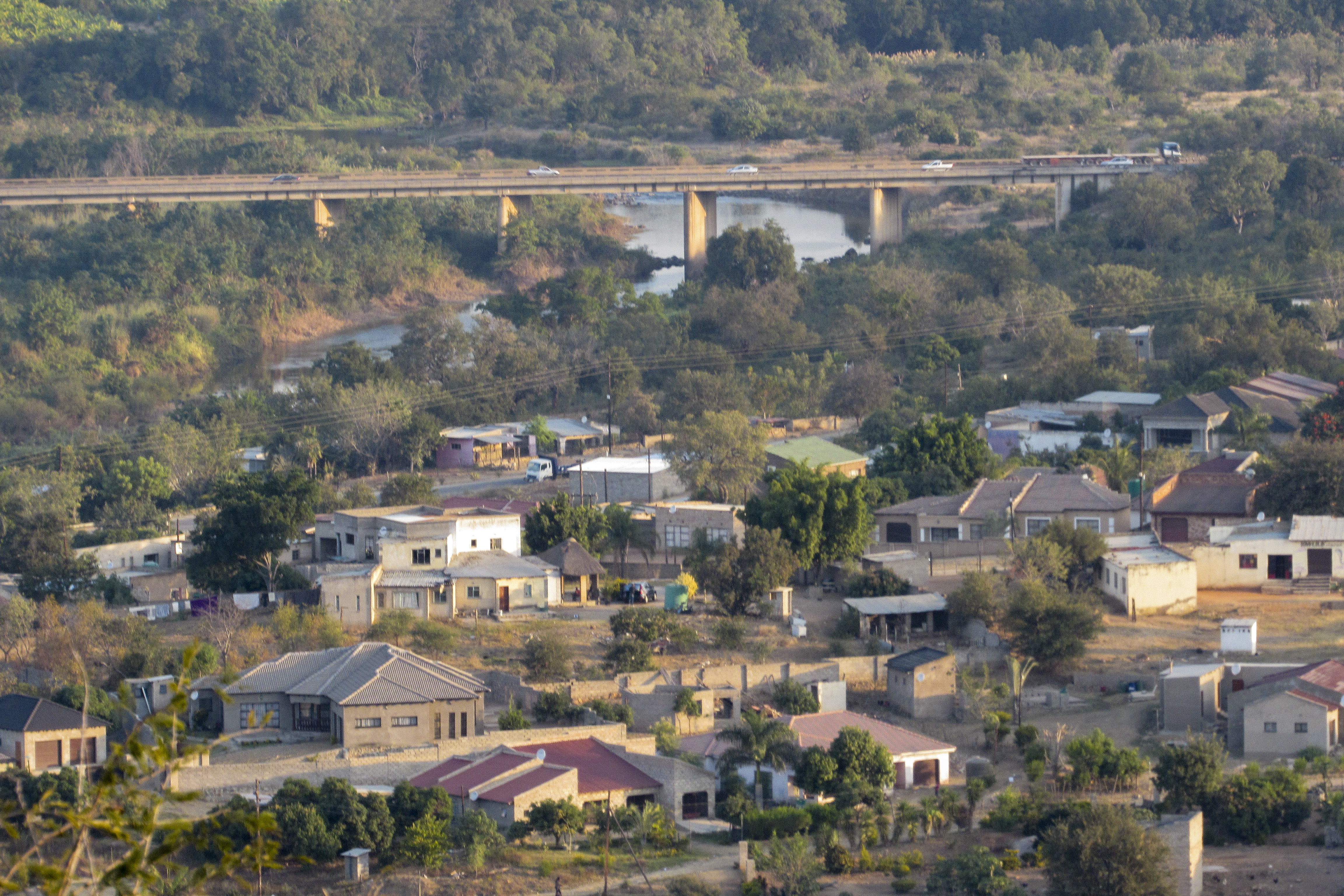 Matsulu-B section (Youth Center) with the view of the Crocodile River and the N4 road.